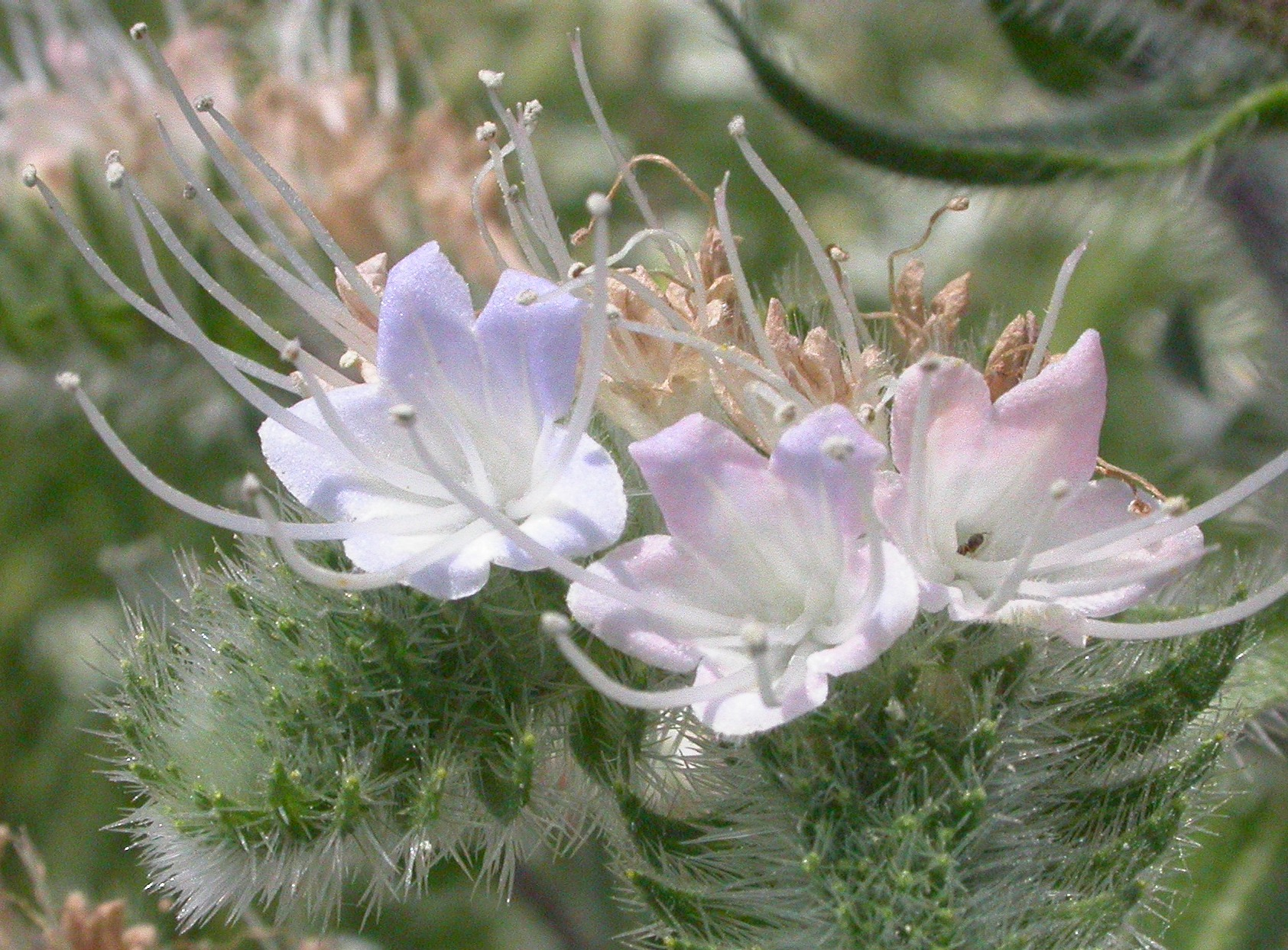 Flowers of Echium italicum subsp. italicum, Monte Gargano, Italy